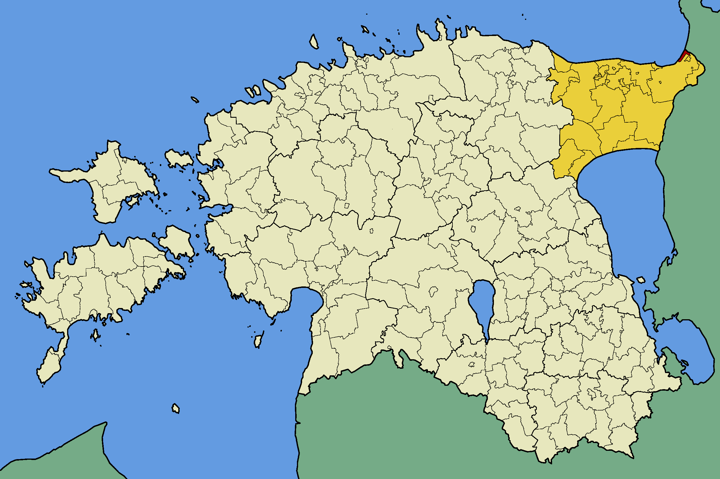 Map of Estonia with borders of municipalities (parishes). Ida-Viru county and Narva-Jõesuu town municipality emphasized.